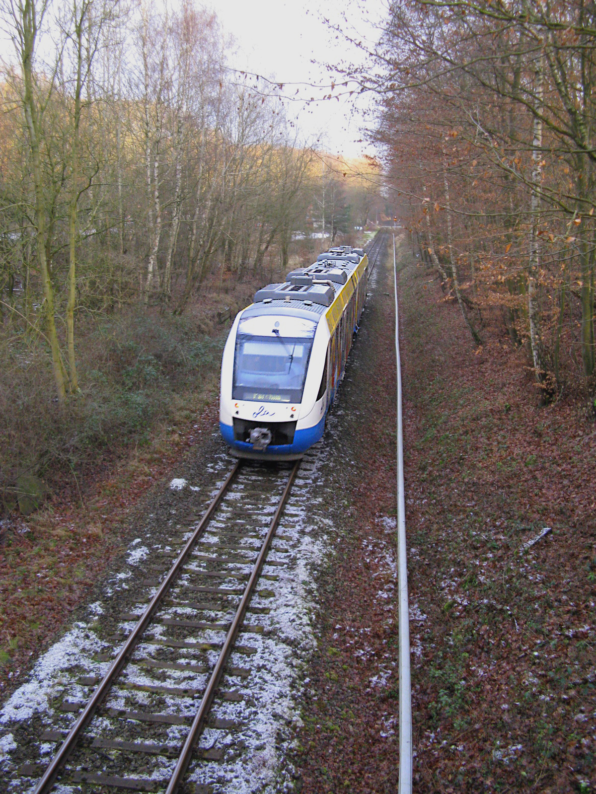 Ostseeland train between Groß Brütz and Schwerin-Friedrichsthal, Mecklenburg-Vorpommern, Germany